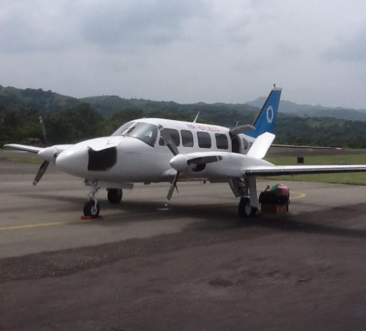 picture of air republiq piper navajo chieftain